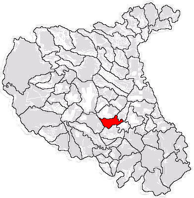 Limits of the Commune of Cârligele